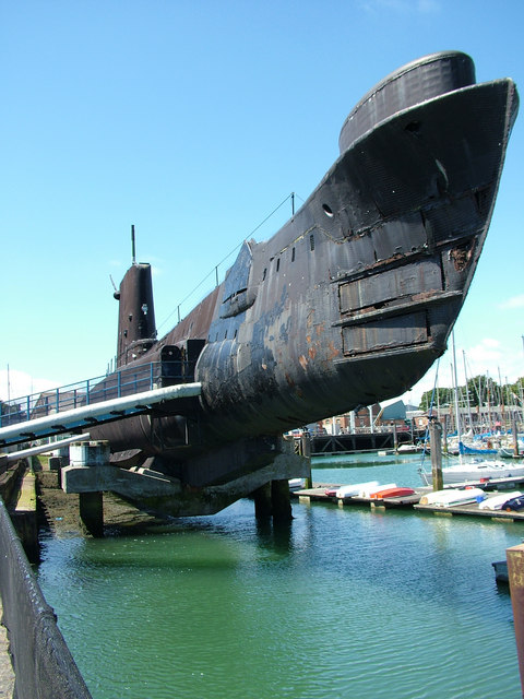 Submarine Alliance at Gosport At Gosport submarine museum.